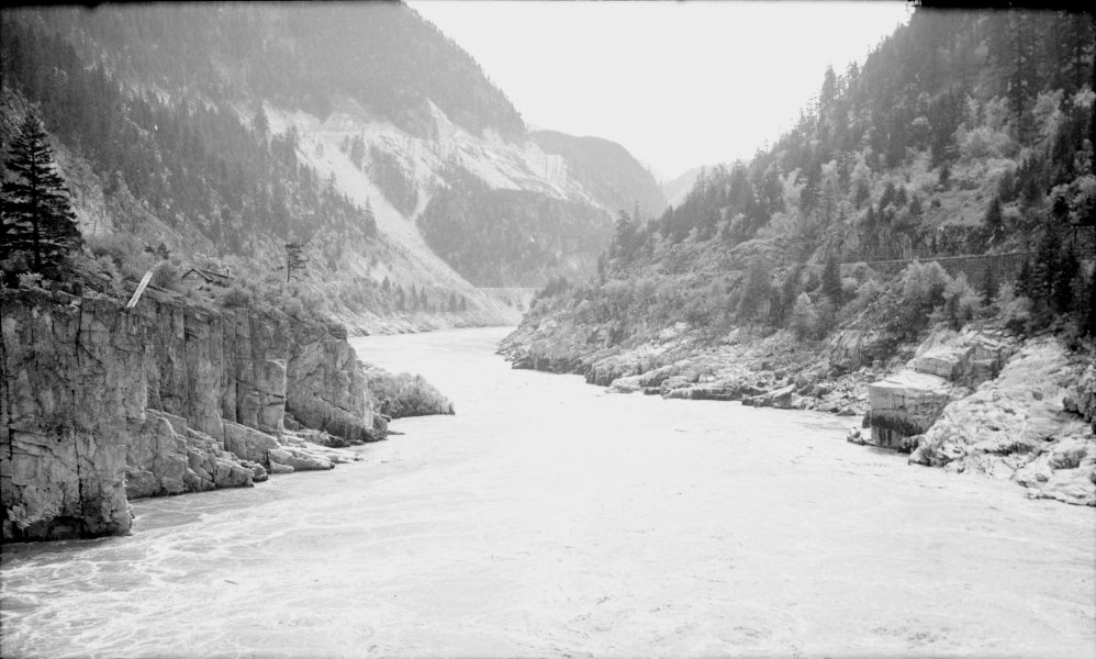 View of Hell's Gate, looking downstream, c. 1956